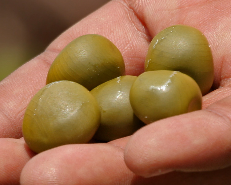 Gray nickernuts, Warri tree or Sagargota Caesalpinia bonduc in Krishna Wildlife Sanctuary, Andhra Pradesh, India.